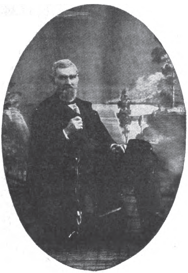 Ohioan James R. Morris